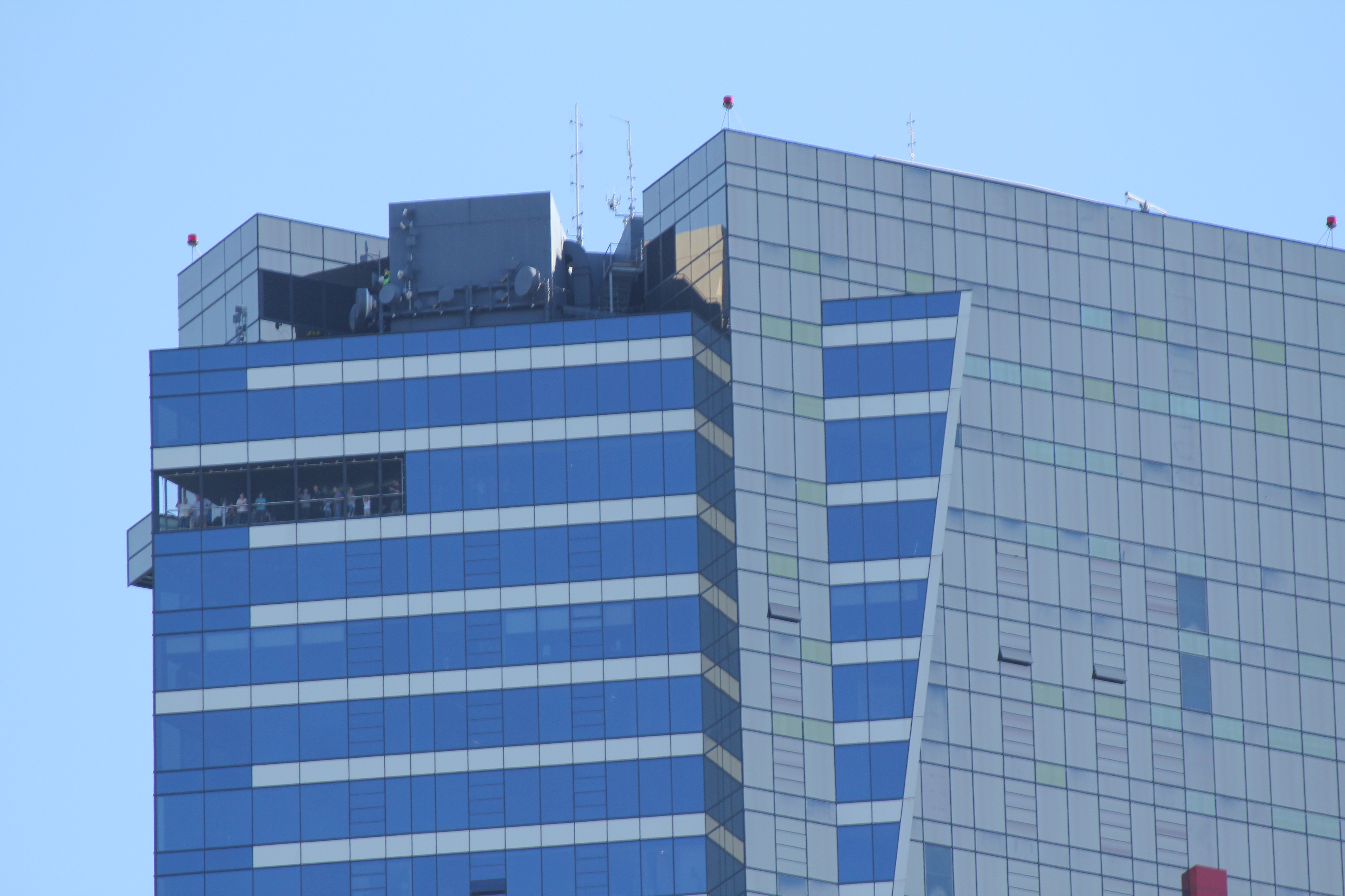 Close-up of the visitor balcony (called "The Terrace") of "Eureka Skydeck 88", the Eureka Tower's observation platform. Photographed from the ground -- I'm unsure about the exact location, but I think it was somewhere along the northern Yarra banks just east of Princess Bridge.